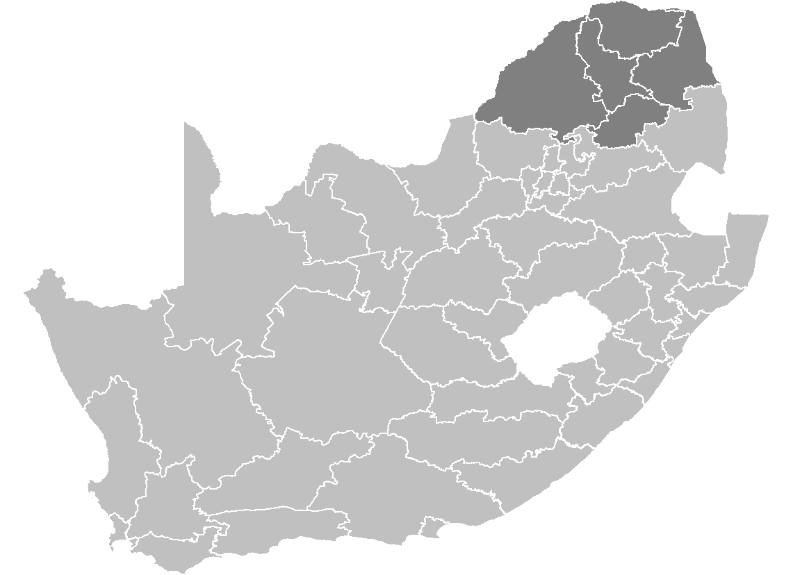 Map showing the District Municipalies of Limpopo.